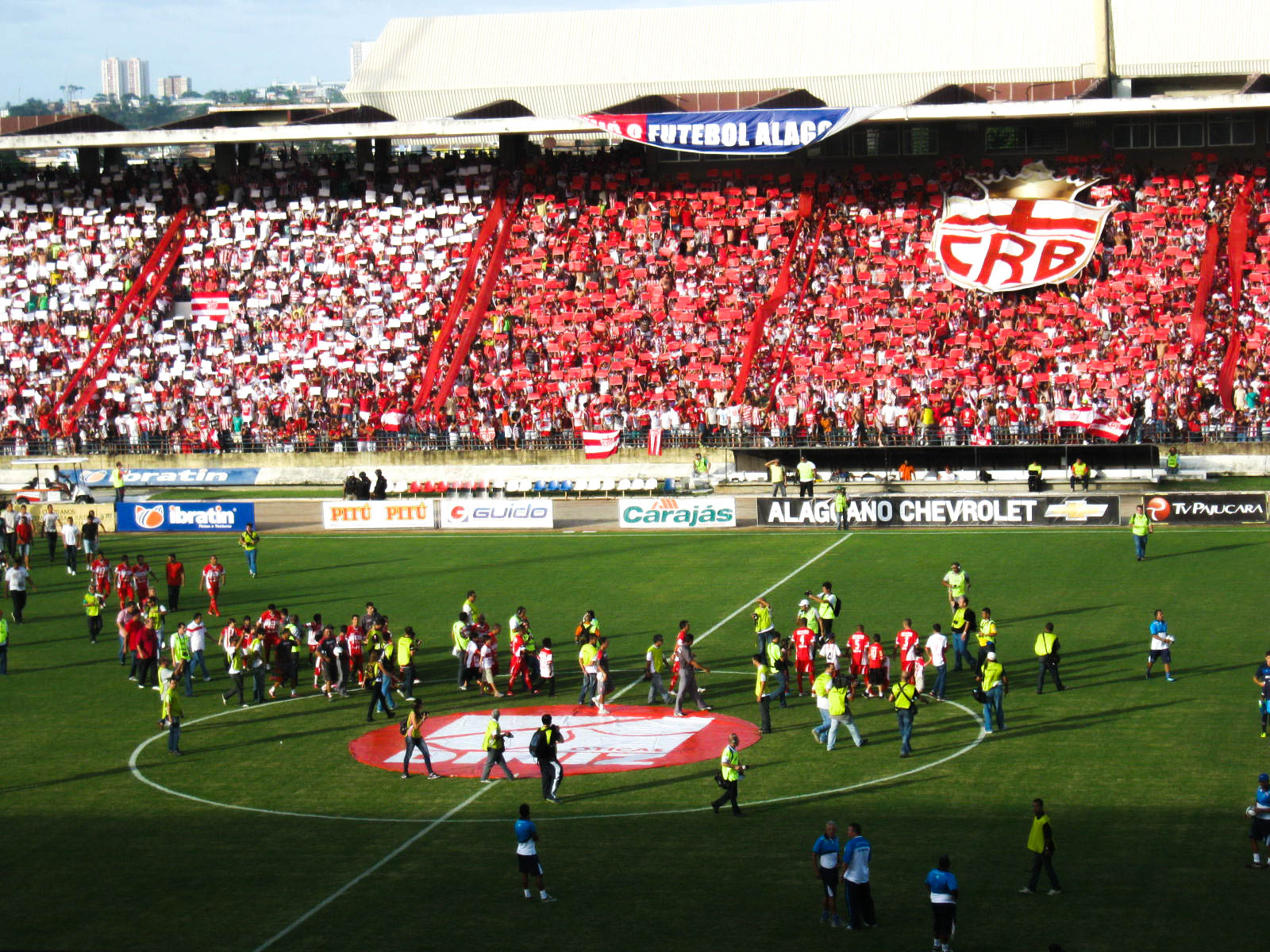 Estádio Rei Pelé, em Maceió, Alagoas, Brasil.